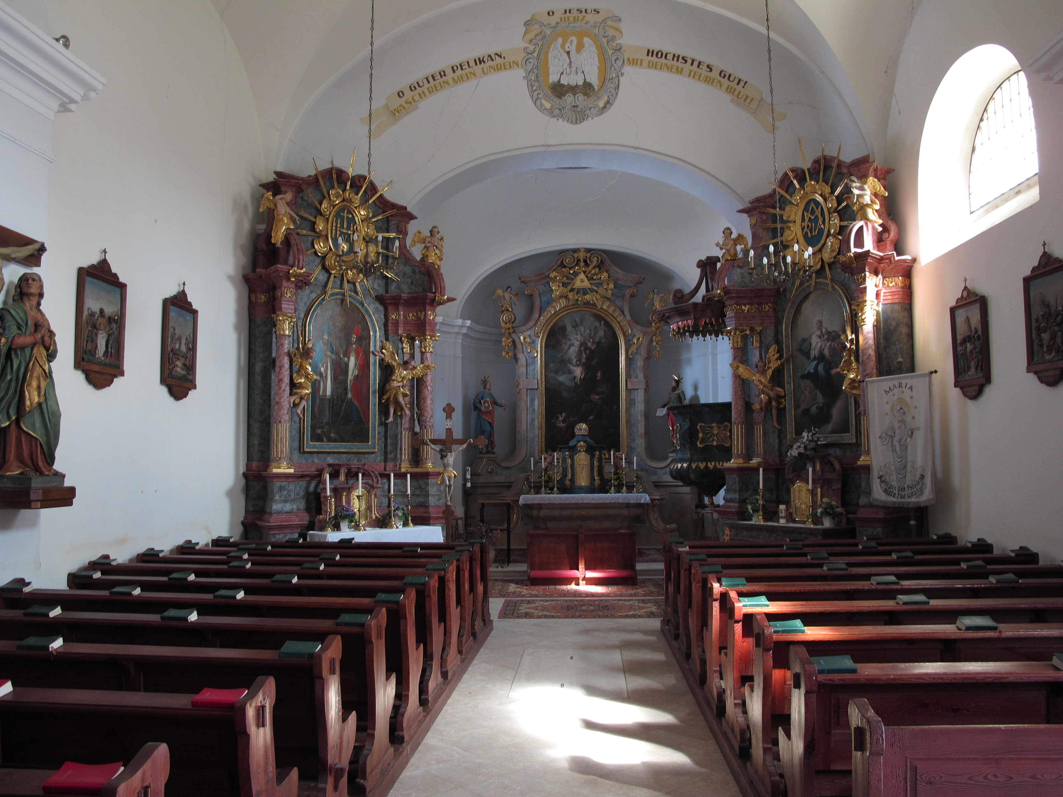 Alte Pfarrkirche Stegersbach